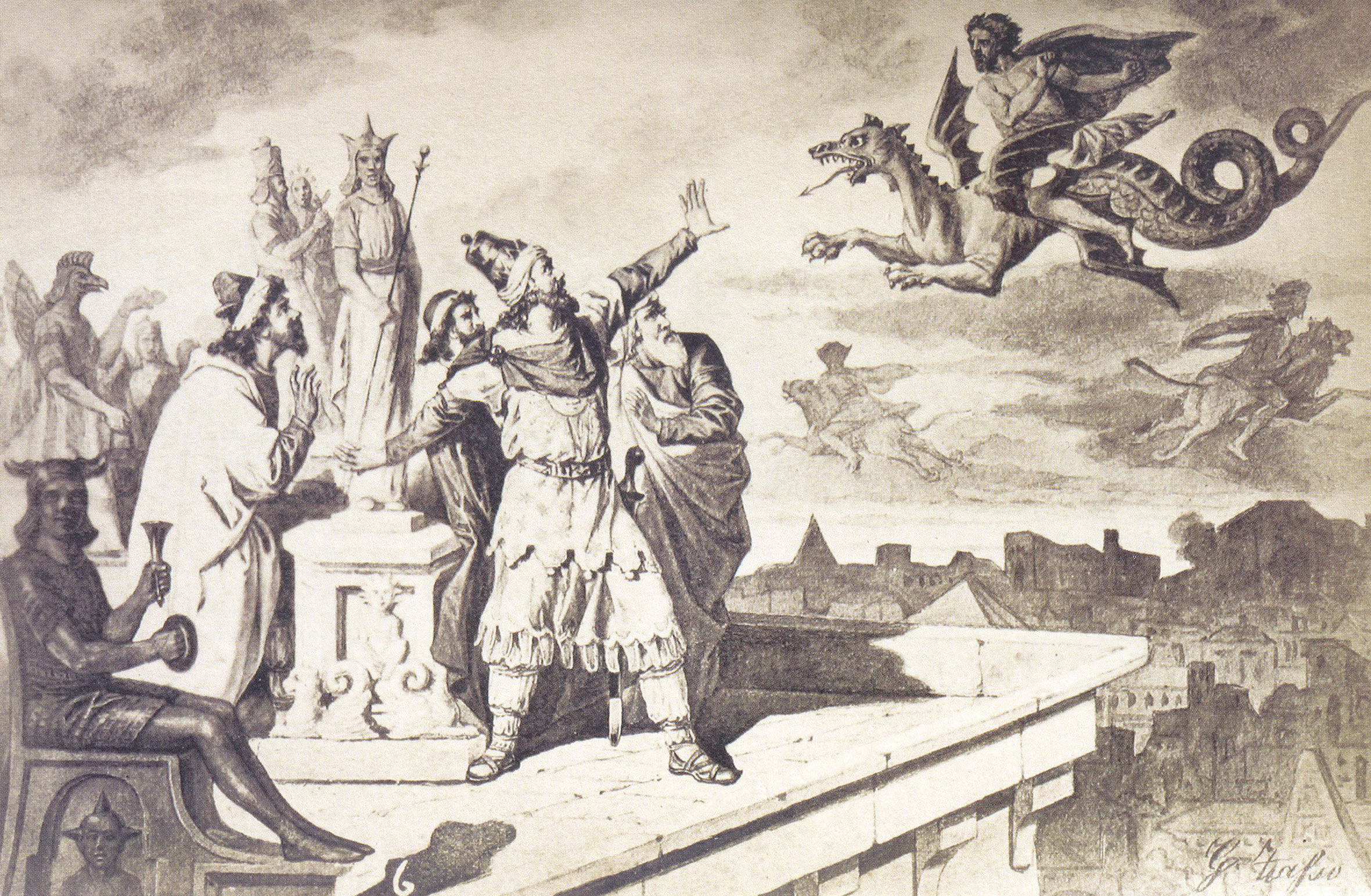 Zahhak dream